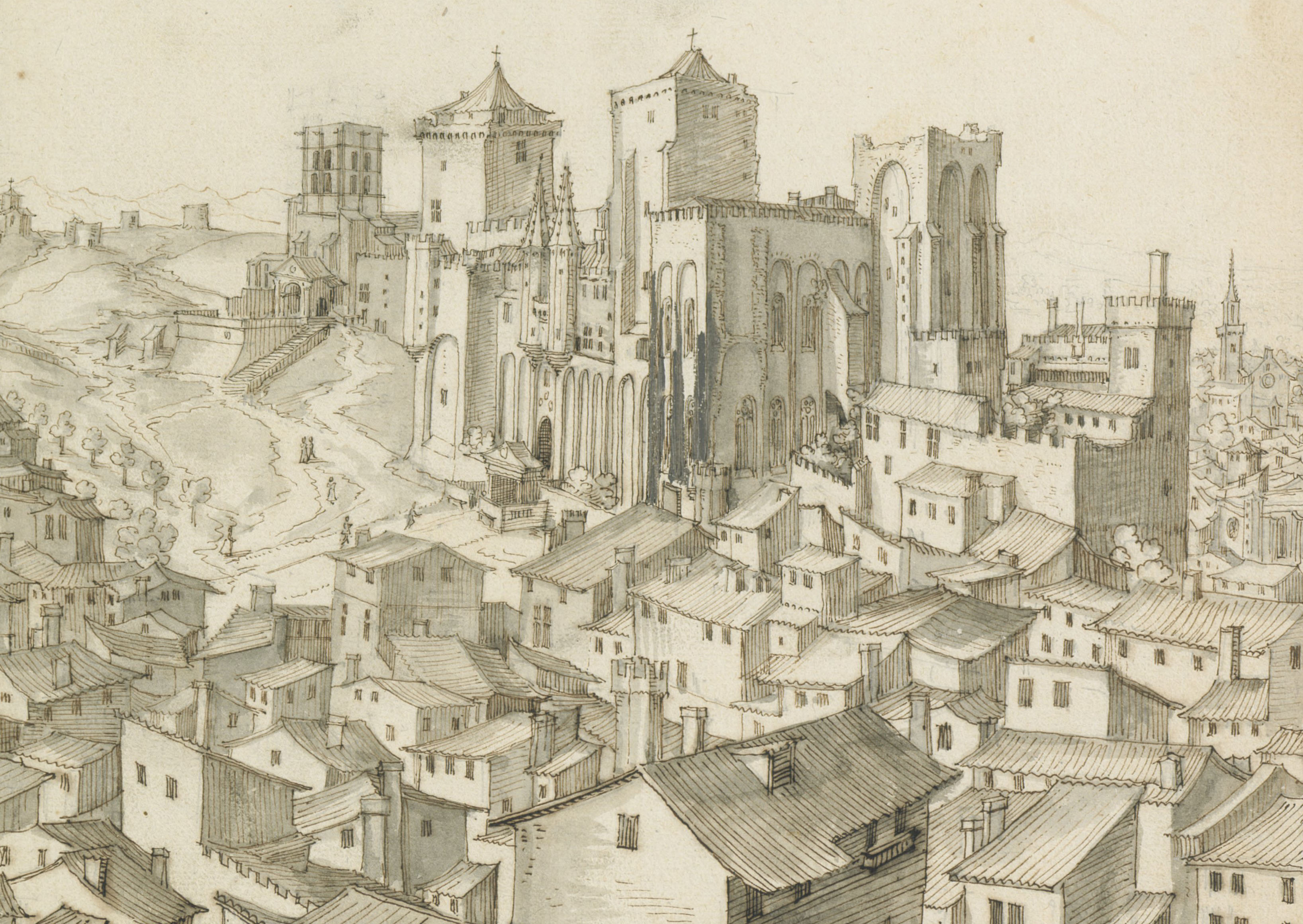 Detail of a larger drawing showing the Palais des Papes in Avignon.